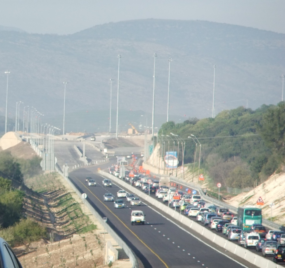 Hamovil junction, line up of cars heading east and the bride under construction